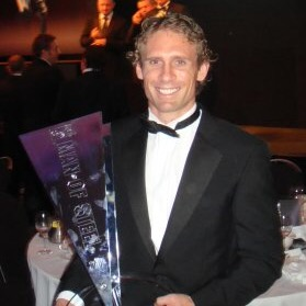 Brett Hodgson after receiving the Man of Steel trophy 2009.